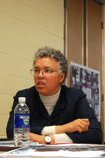 Toni Preckwinkle